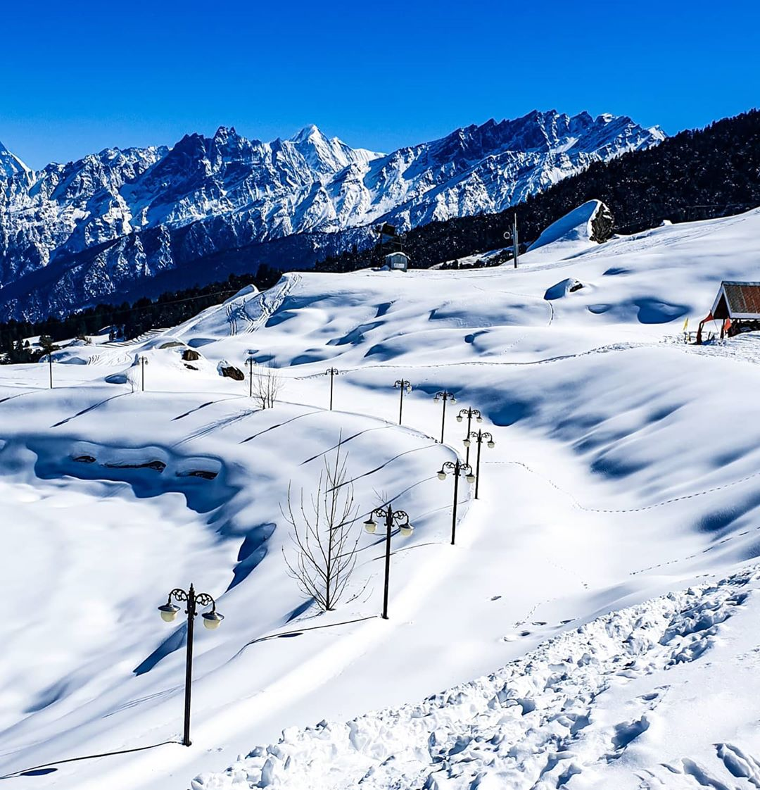 Auli in the Himalayas